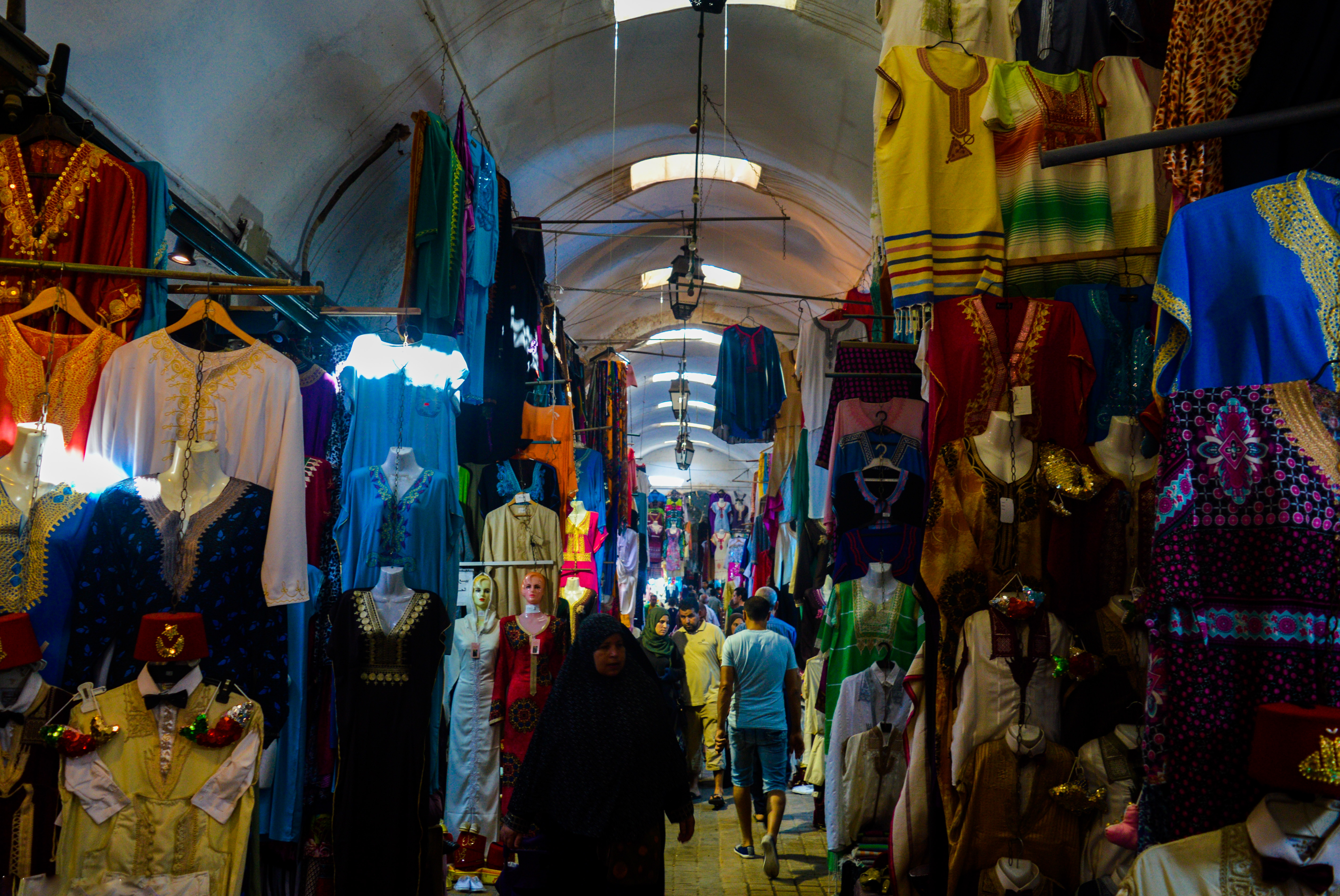 Souk Erbaa, a traditionnal market in the medina of Sfax.